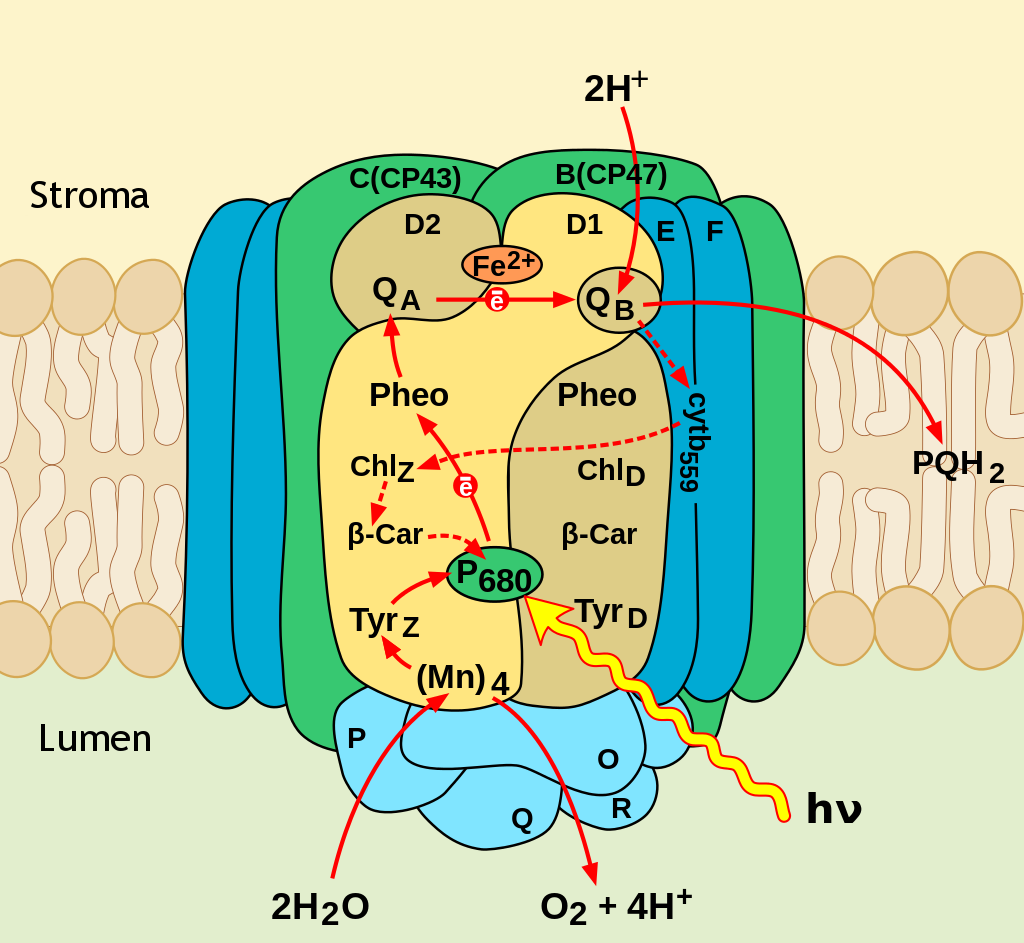 Photosystem II structure, modified from original by translating stroma and lumen from Russian to English.